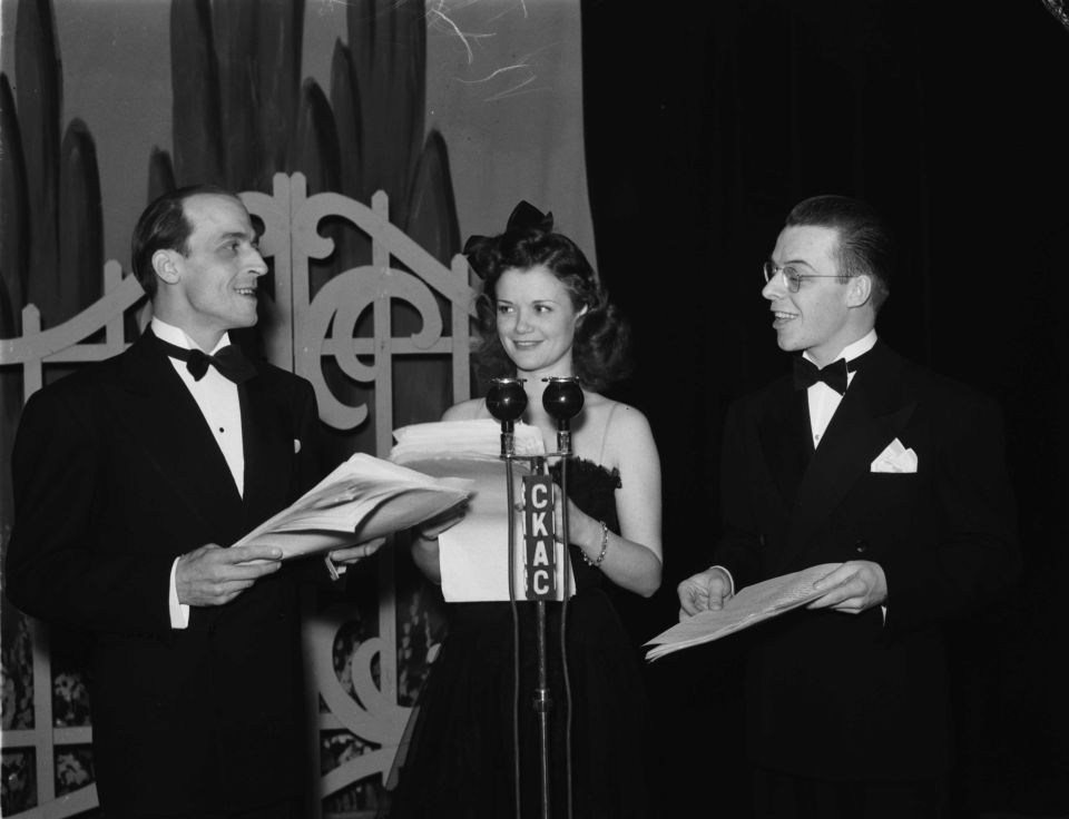 The star of French cinema, Simone Simon, surrounded by Vassal Paul and Albert Cloutier, reads a text on the Lux theater scene in a radio evening with CKAC in Montreal.